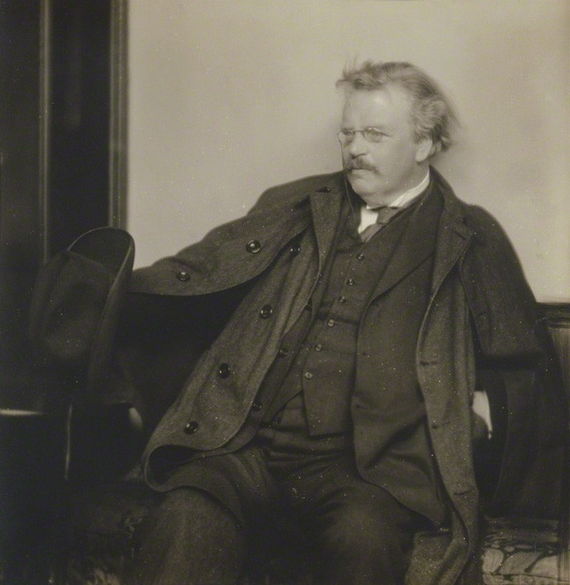 Chesterton, by Herbert Lambert, 1920's